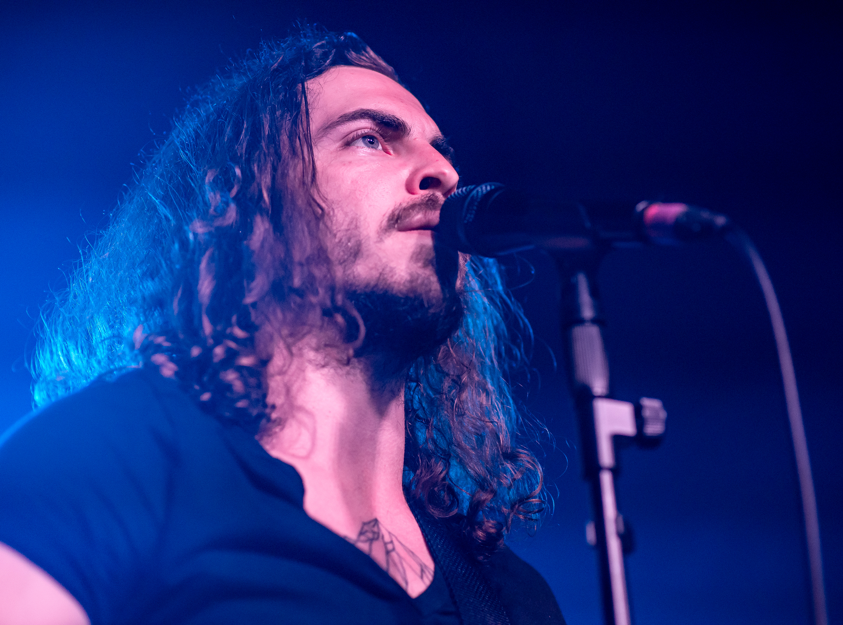 Dennis Lloyd performing live at the Moroccan Lounge in Los Angeles, California, on Thursday, June 14, 2018.